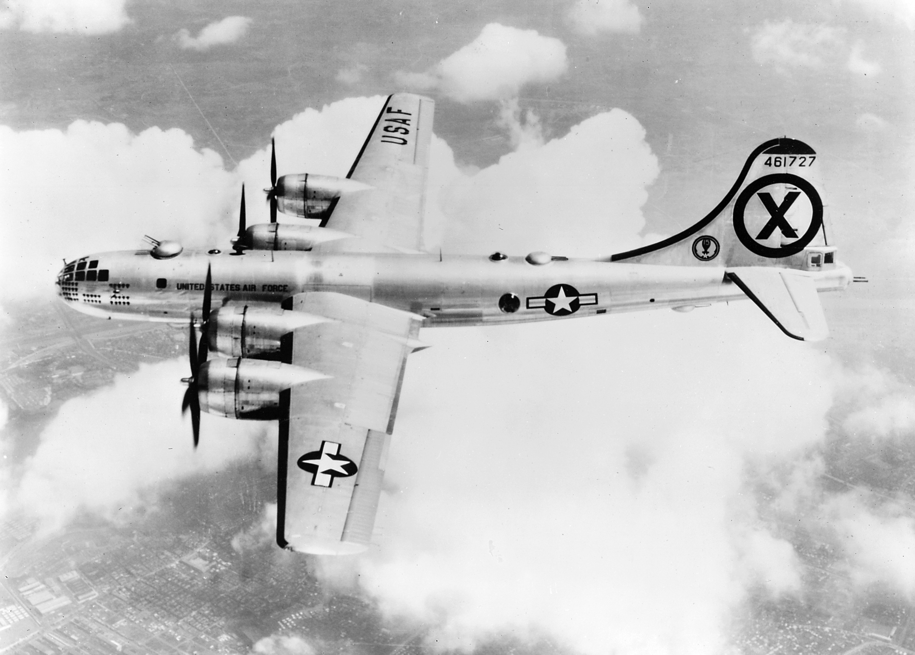 A U.S. Air Force Boeing RB-29A Superfortress (s/n 44-61727) from the 91st Strategic Reconnaissance Squadron over Korea. This aircraft was shot down by MiG-15s, possibly over China or the extreme northern part of Korea on 4 July 1952. 11 of the crew of 13 were taken prisoner, two crewmembers died.Original caption: "View of RB-29 of the 31st Reconnaissance Squadron, somewhere over Korea., ca. 07/1952"